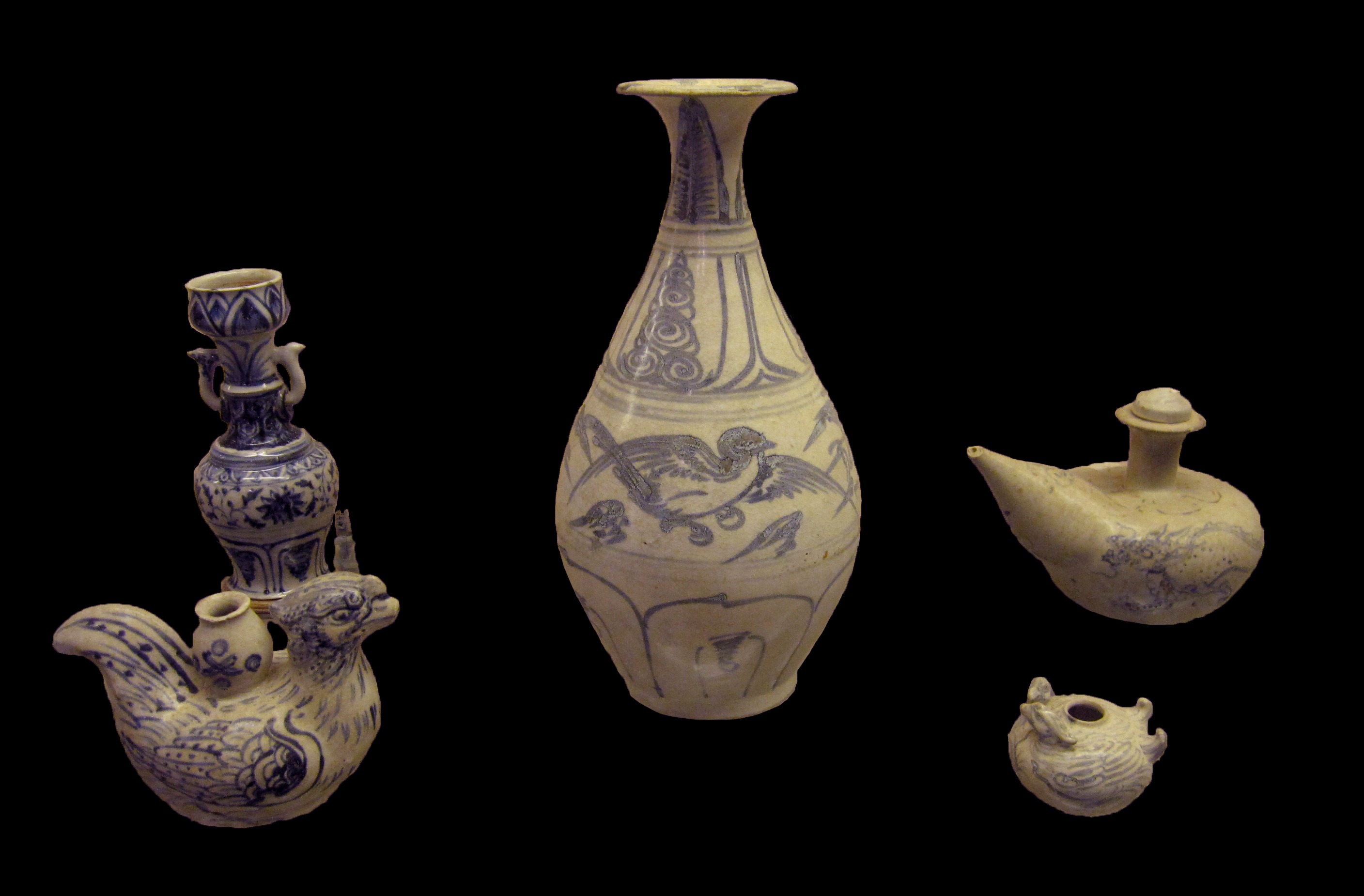 Lampstand, vase ewers in phoenix shape. Blue and white ceramic, Early Lê dynasty, 15th century. Chu Đậu kiln, Hải Dương province. National Museum of Vietnamese History, Hanoi.